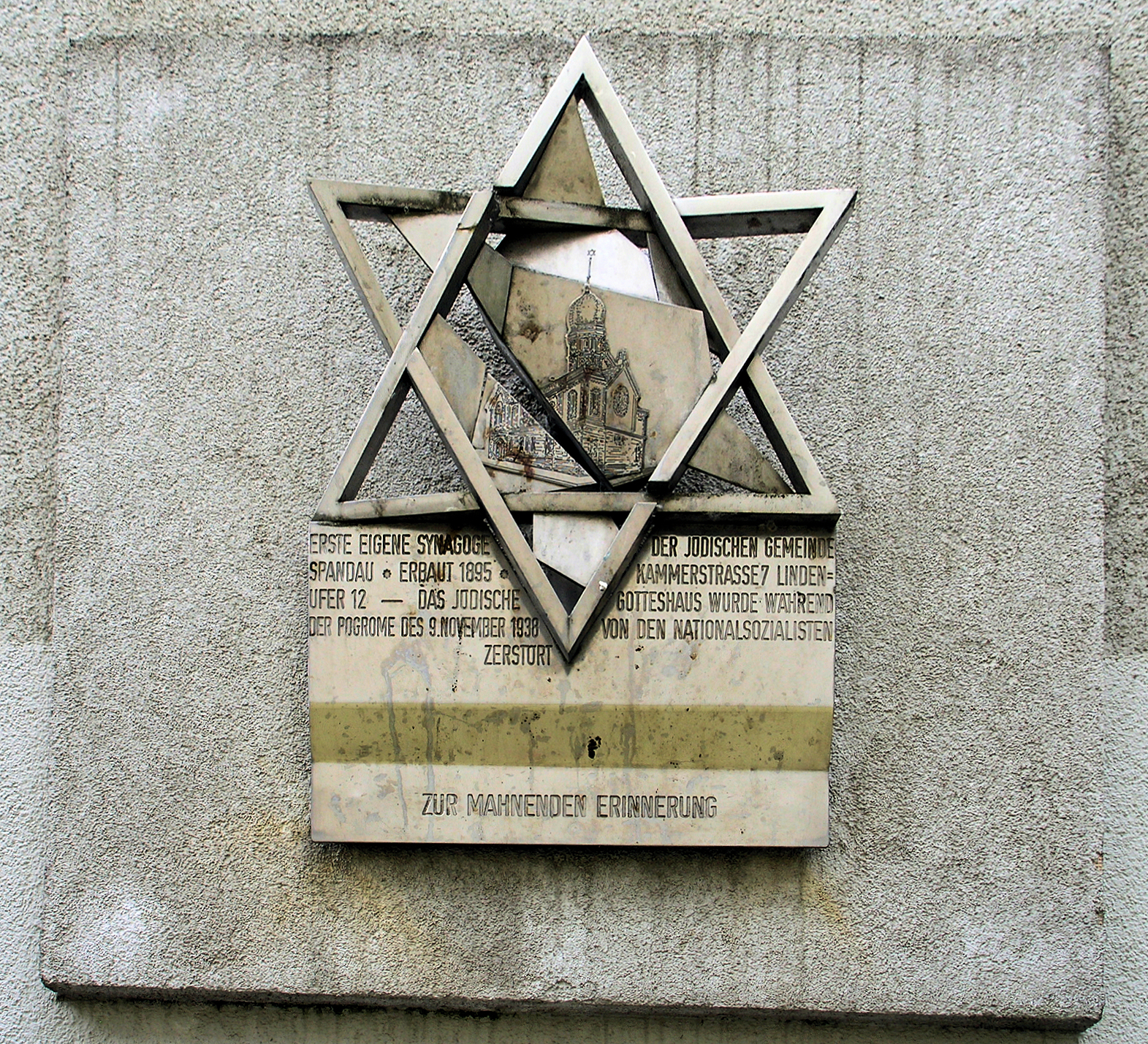 Memorial plaque, Synagoge Spandau, Lindenufer 12, Berlin-Spandau, Germany